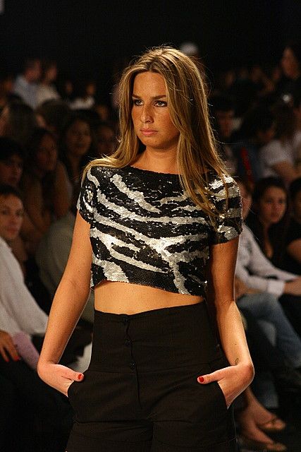 Mariana Weickert no Cristal Fashion 2007.